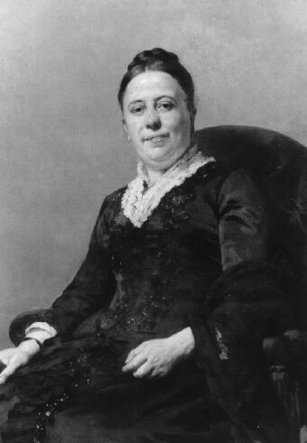 Alfred Cluysenaer (died 1902) painting of Isabelle Gatti de Gamond